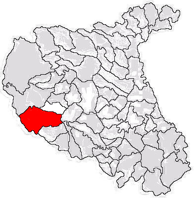 Map of limits of commune in Vrancea County